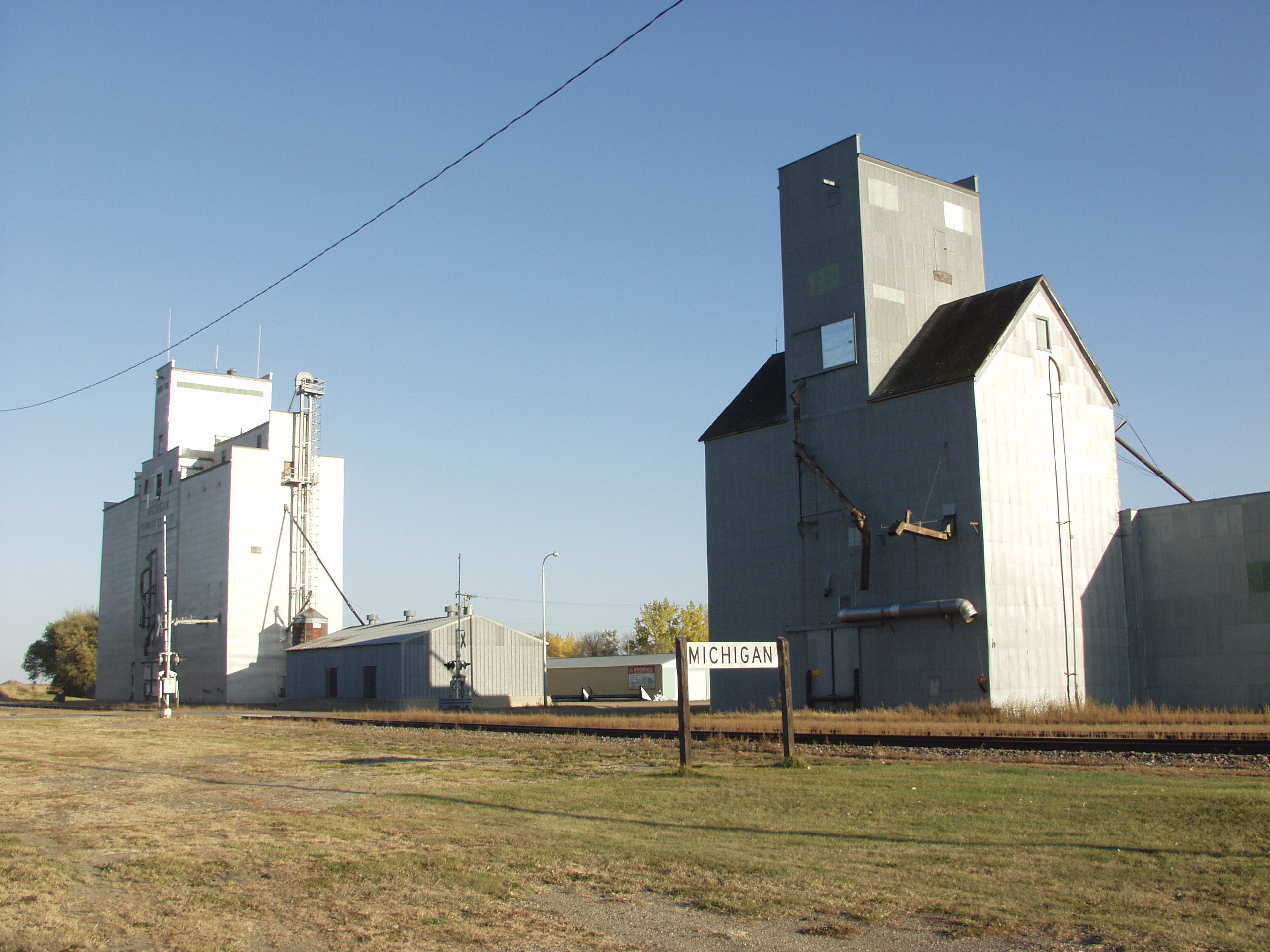 Michigan, North Dakota. From .